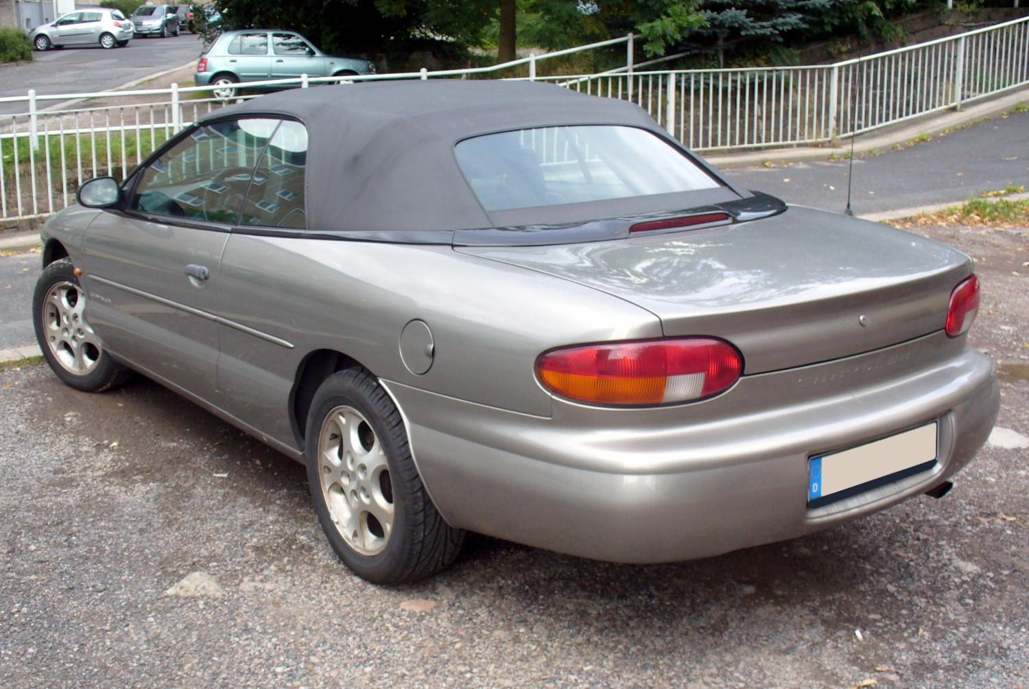 Chrysler Stratus